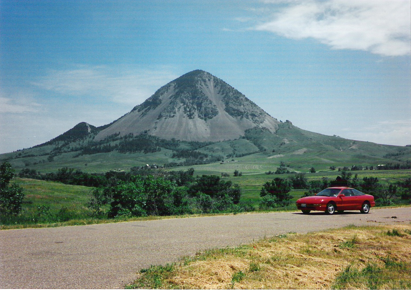 Bear Butte, South Dakota, the sacred Mountain of the Cheyennes.